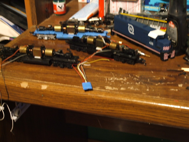 Digitrax DH163AT for an Athearn locomotive. Jason Trew Photo